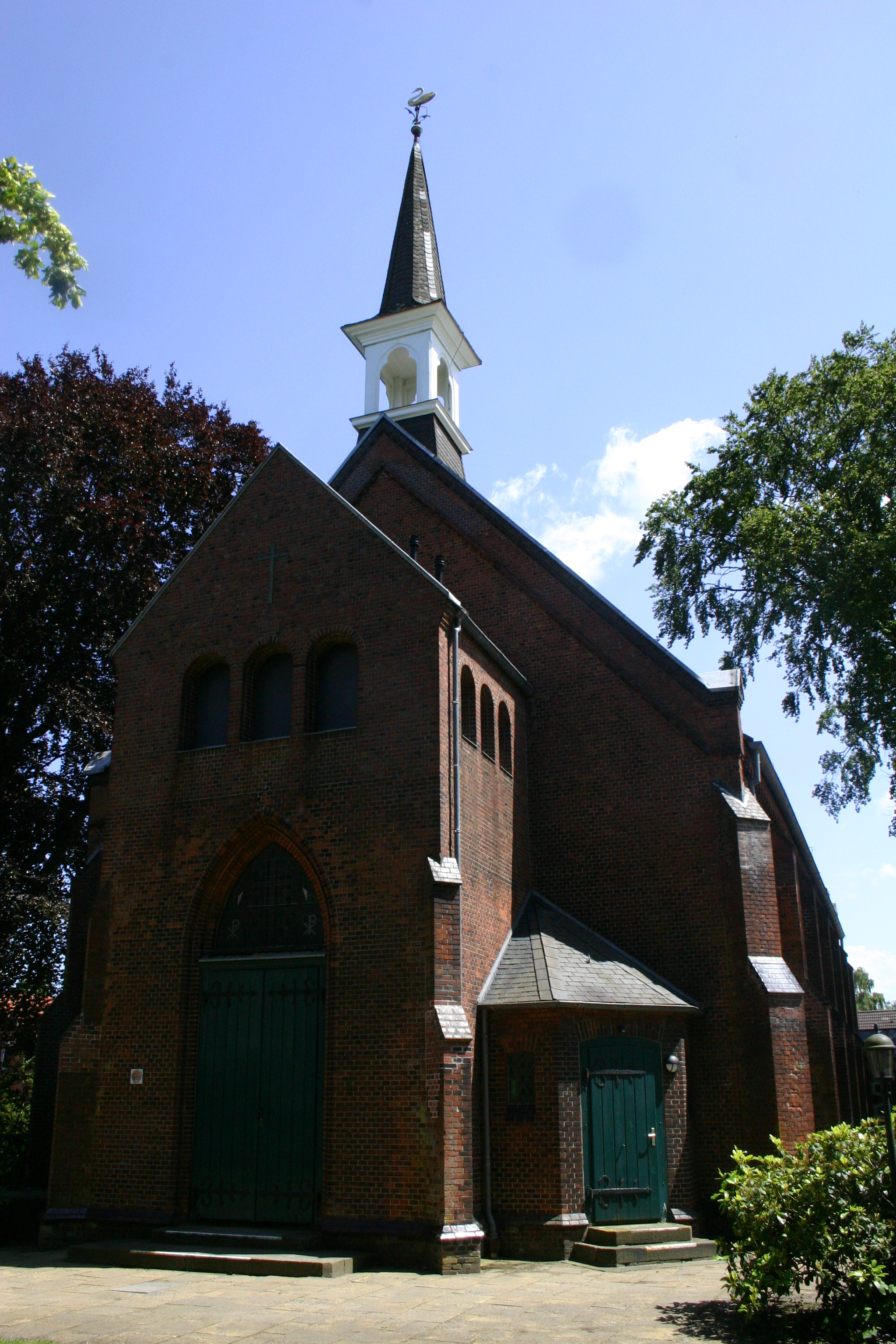 Historic Christ Church (lutheran) in Leer, East Frisia, Germany